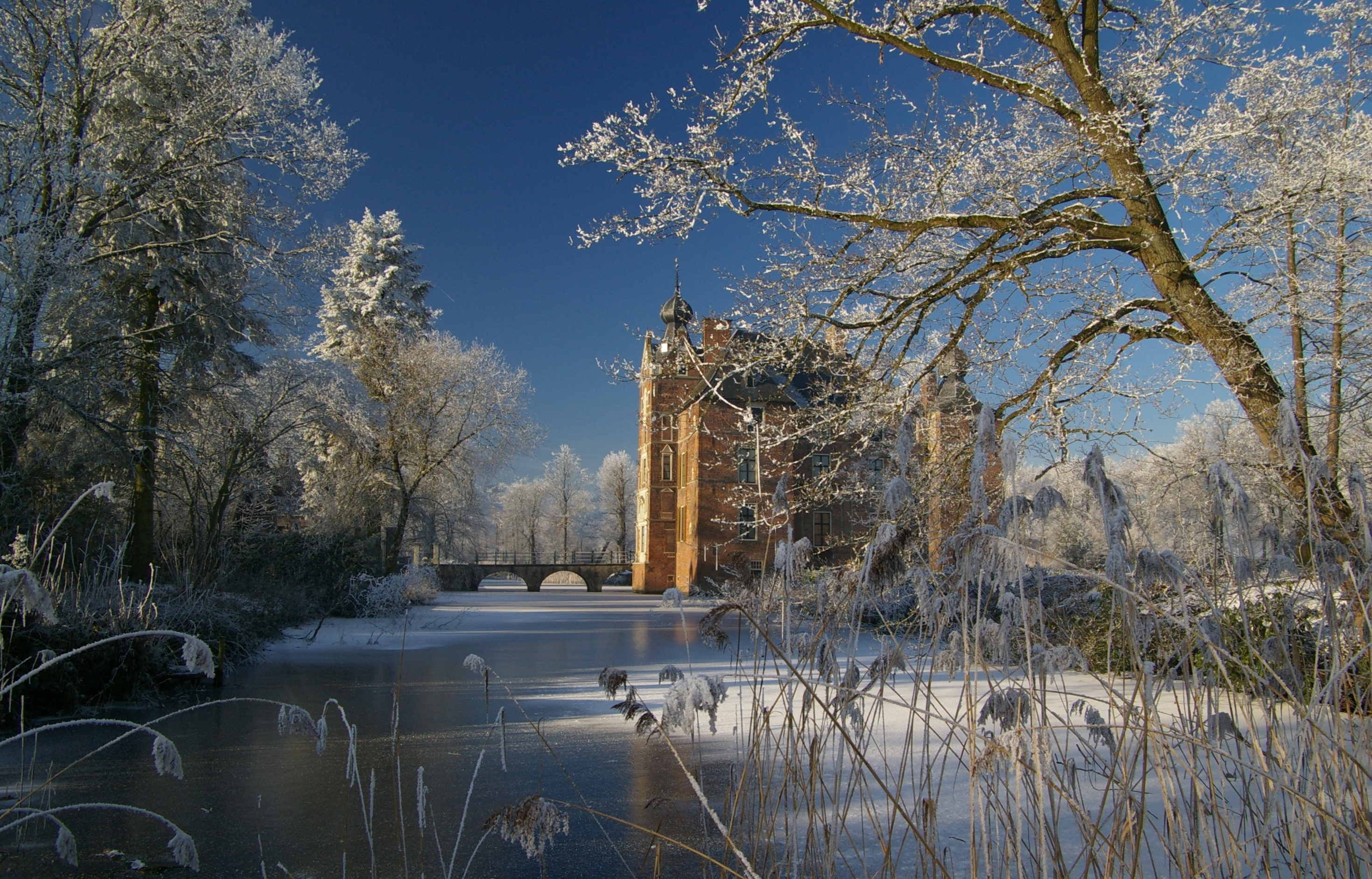 Castle Cannenburg in Vaassen, the Netherlands. Polarisation filter used.